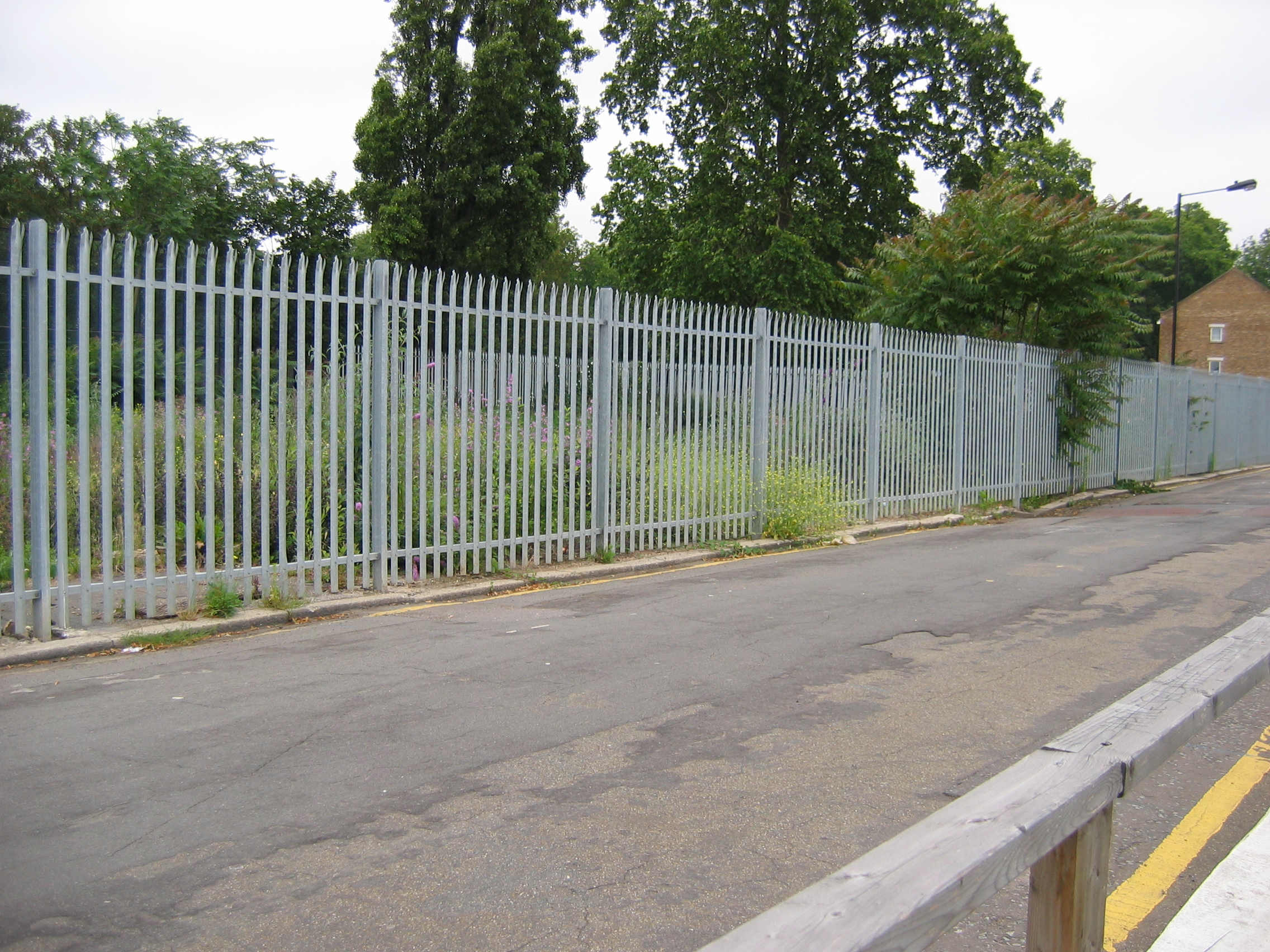 St Agnes Place in Kennington post demolition